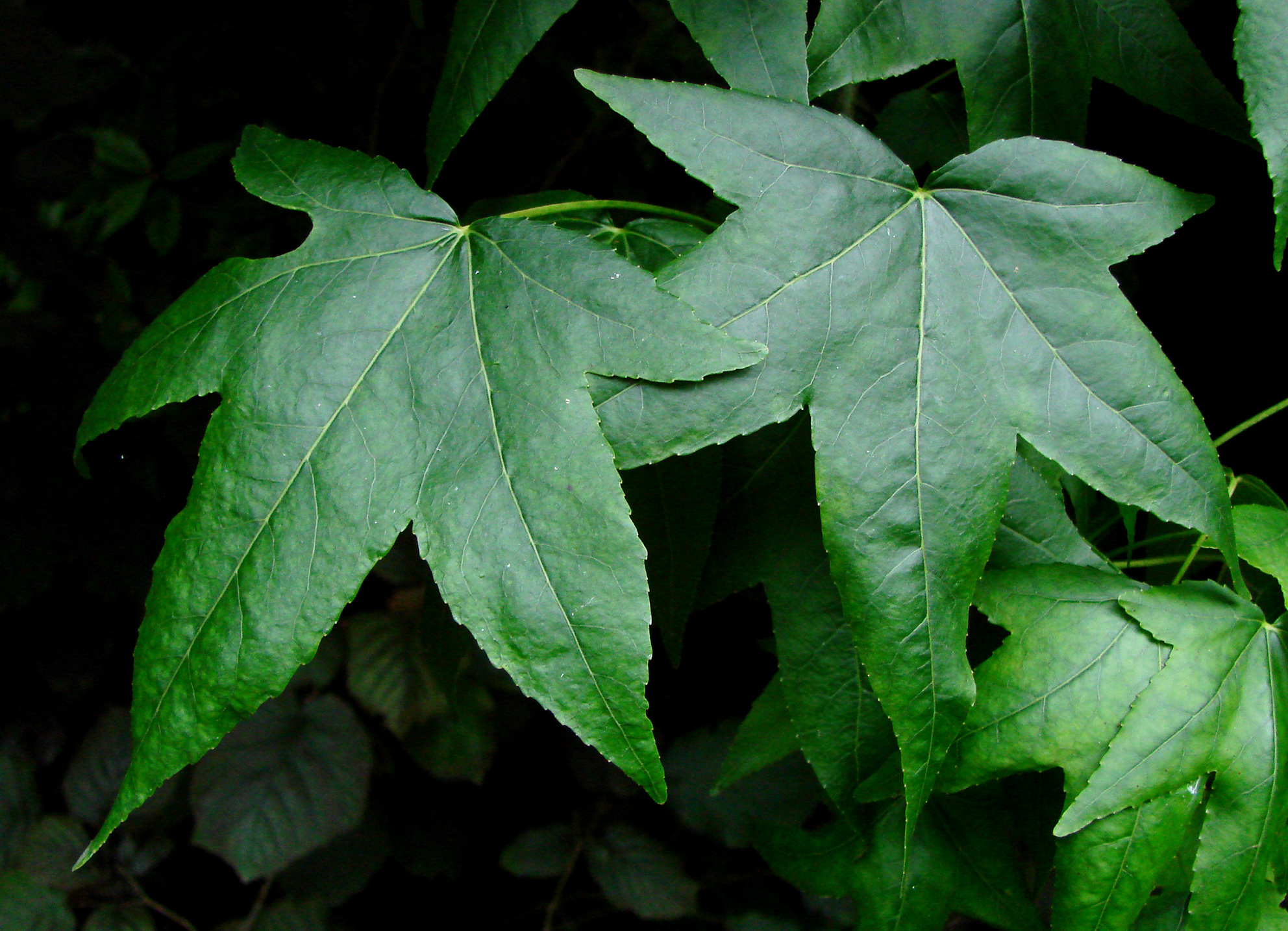 Leaves of Sweet gum (Liquidambar styraciflua).